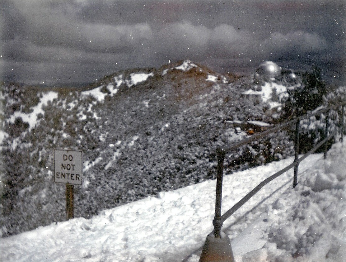 Mount Hamilton (California), USA